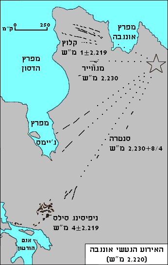 Map of the Ungava magmatic event in Eastern Canada.